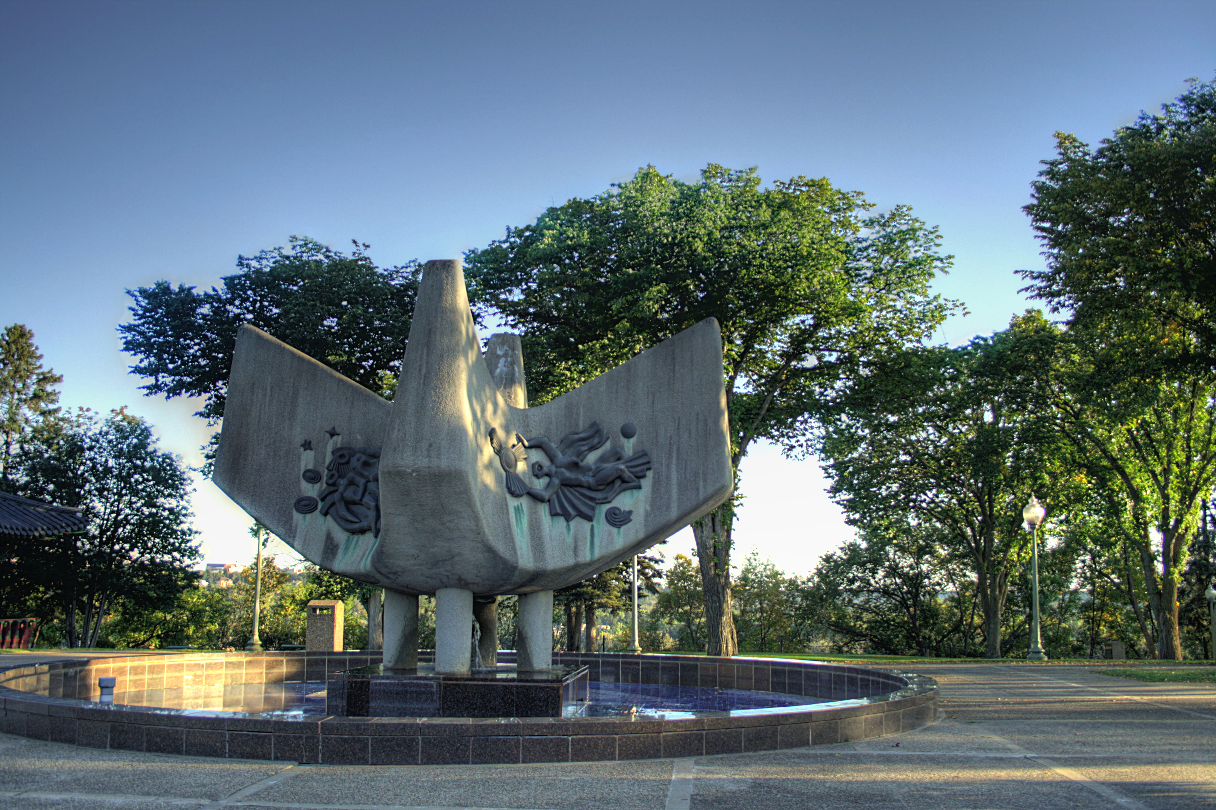 The Abstract Fountain on the grounds of the Royal Alberta Museum in Edmonton, Alberta, Canada.